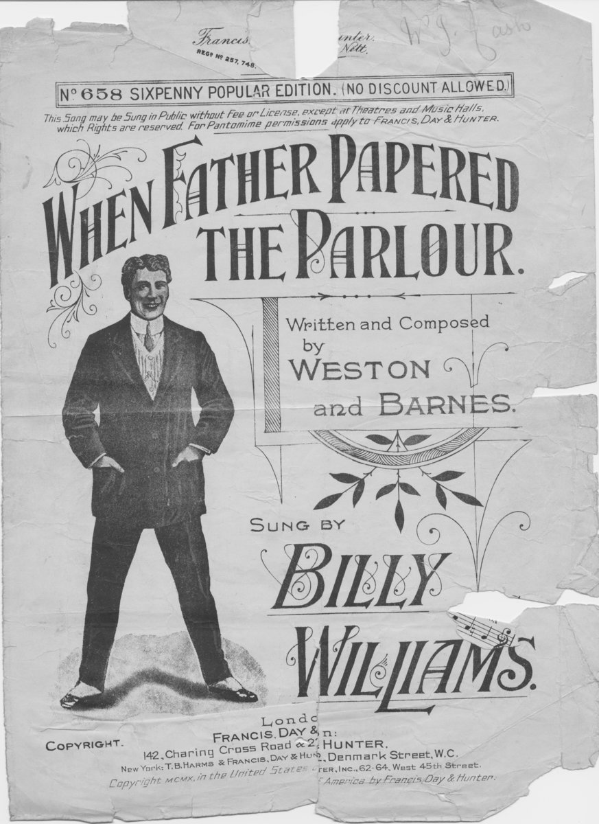 A front page of When Father Papered The Parlour music score